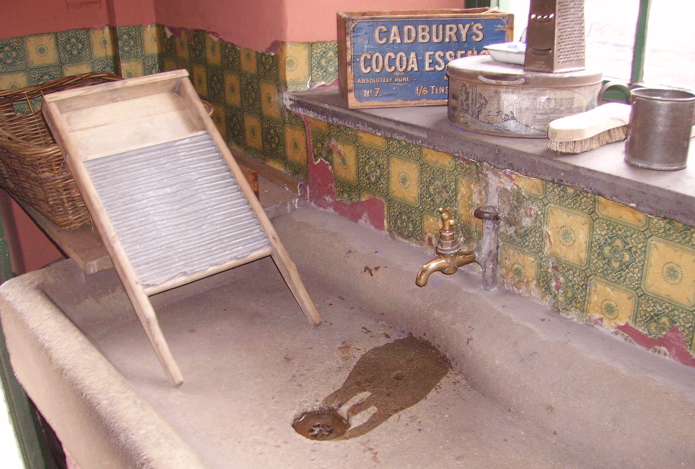 Beamish Museum, County Durham, England. This is the laundry sink in Home Farm.